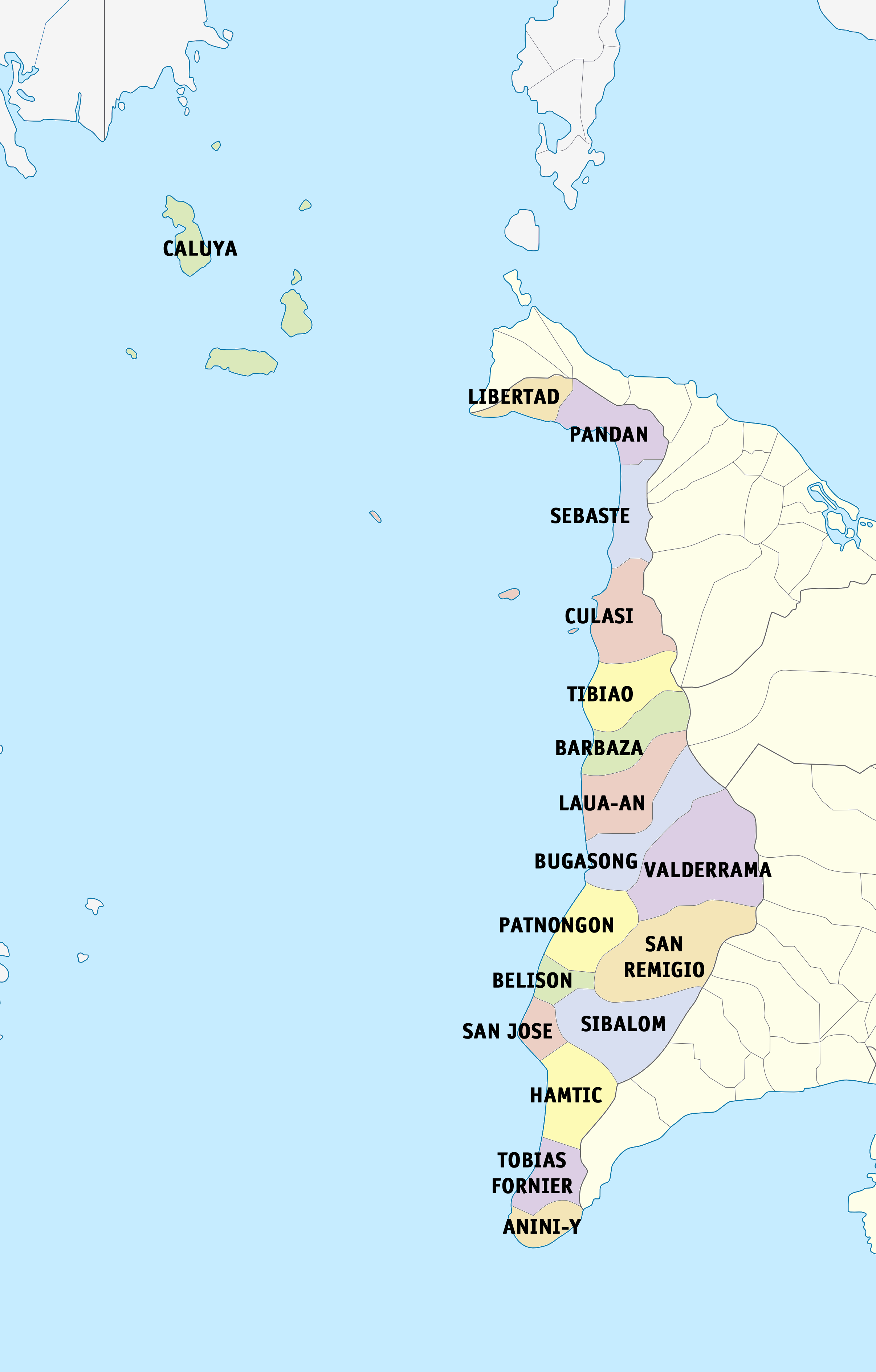 Political map of Antique, Philippines